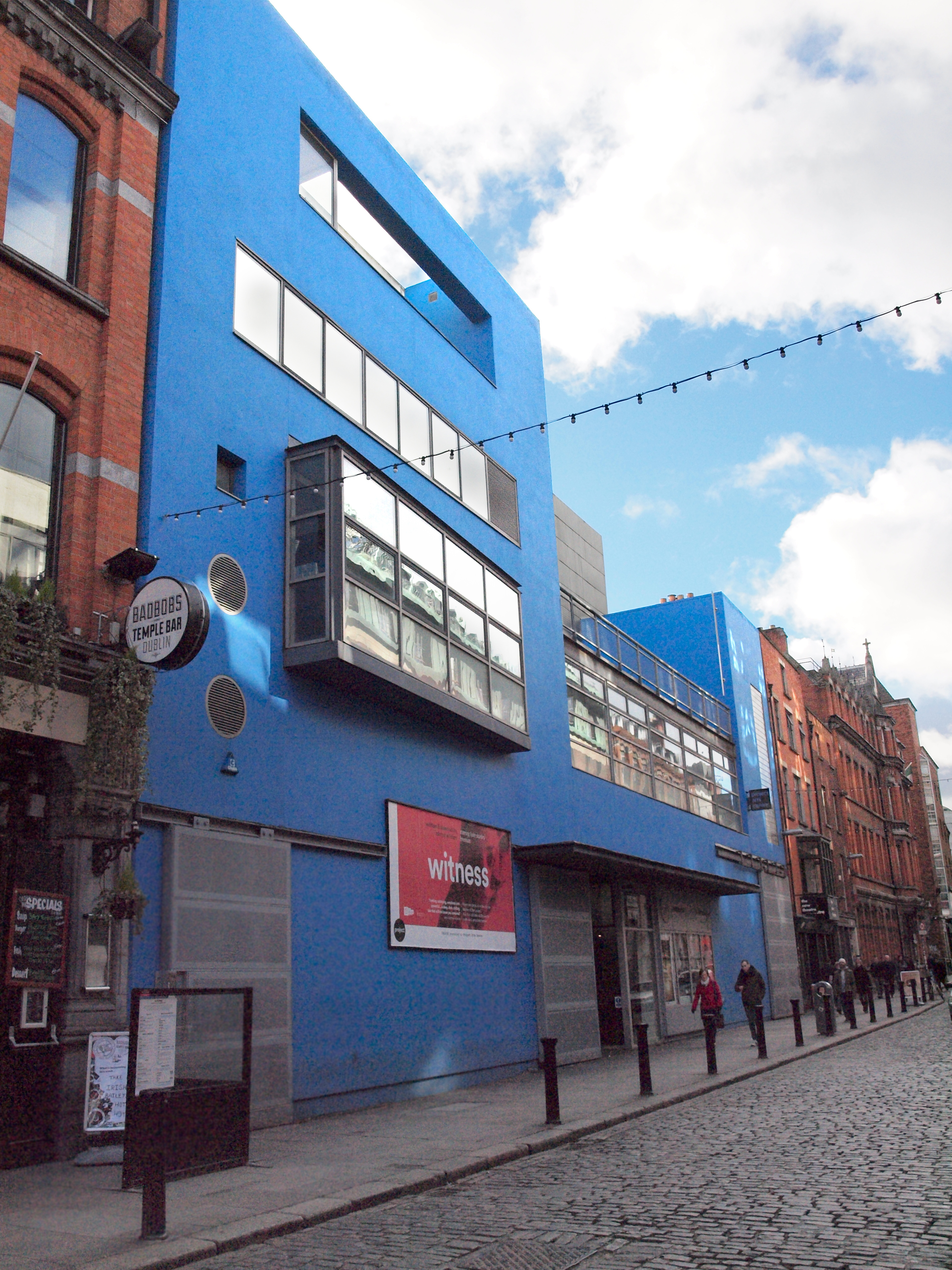 Project Arts Centre is a multidisciplinary arts centre based in Temple Bar, Dublin.